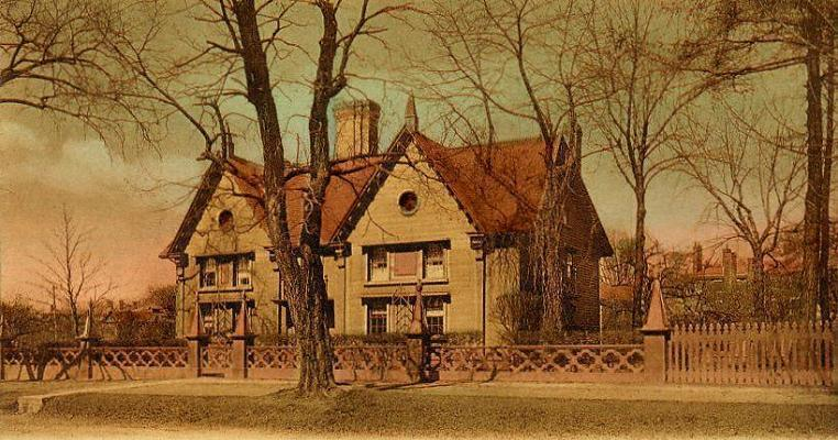 Pickering House, Salem, MA; from a c. 1905 postcard. Built c. 1651, it is owned by the Pickering Foundation and open to the public. The Pickering Hose is part of the McIntire Historic District. Samue McIntire [1] for whom the city's largest historic district. These collection of homes and mansions from Colonial America now part of the largest concentration of homes from the 17th & 18th in the United States.